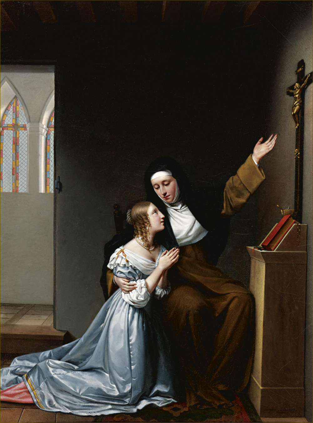 Madame de la Vallière giving instruction in piety to her daughter Mlle De Blois, oil on canvas by Sophie Lemire, Salon of 1812